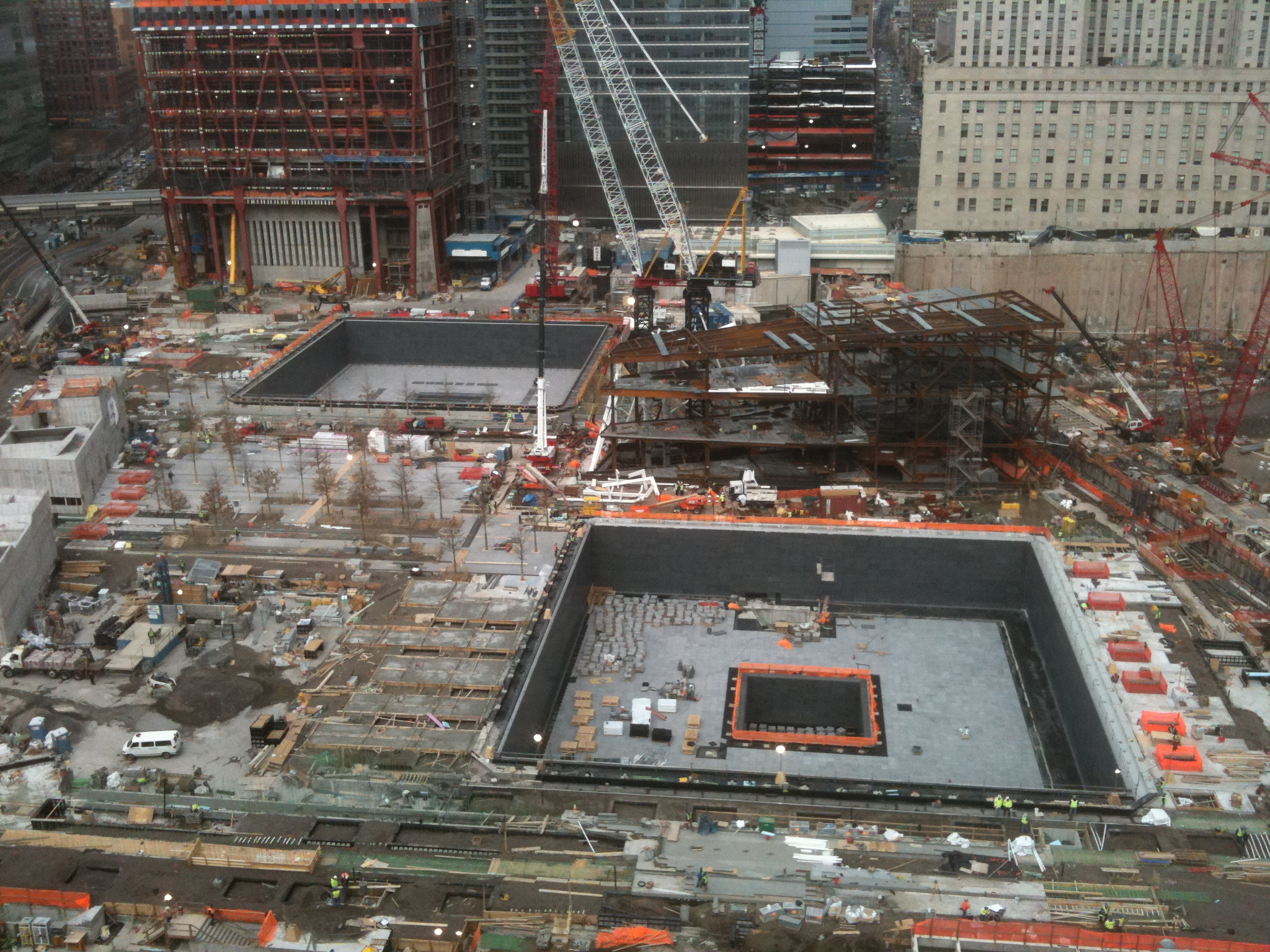 View of the construction at the site of the World Trade Center in New York City. Taken from the Club Quarters, World Trade Center hotel (across Liberty Street) on December 3, 2010, roughly facing north. The footprints in the left center and right foreground are now the north and south memorial pools of the National September 11 Memorial & Museum, respectively, and the building under construction in the right center is the museum building itself. The construction of One World Trade Center is visible in the left background.